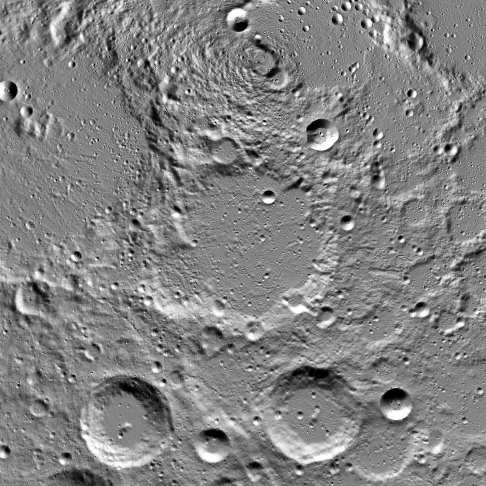 Crater Hermite (diam. 110 km) on the Moon, near the North pole. Smaller crater Lenard fuses with it's lower left side. Two sharp craters below are Lovelace (left) and Sylvester (right). Part of large crater Rozhdestvenskiy is seen in upper left. The image is centered at 86°N, 267°E. The image is build from data by Lunar Orbiter Laser Altimeter (LOLA) aboard the Lunar Reconnaissance Orbiter. Width of the image is 300 km; North pole is near upper margin.